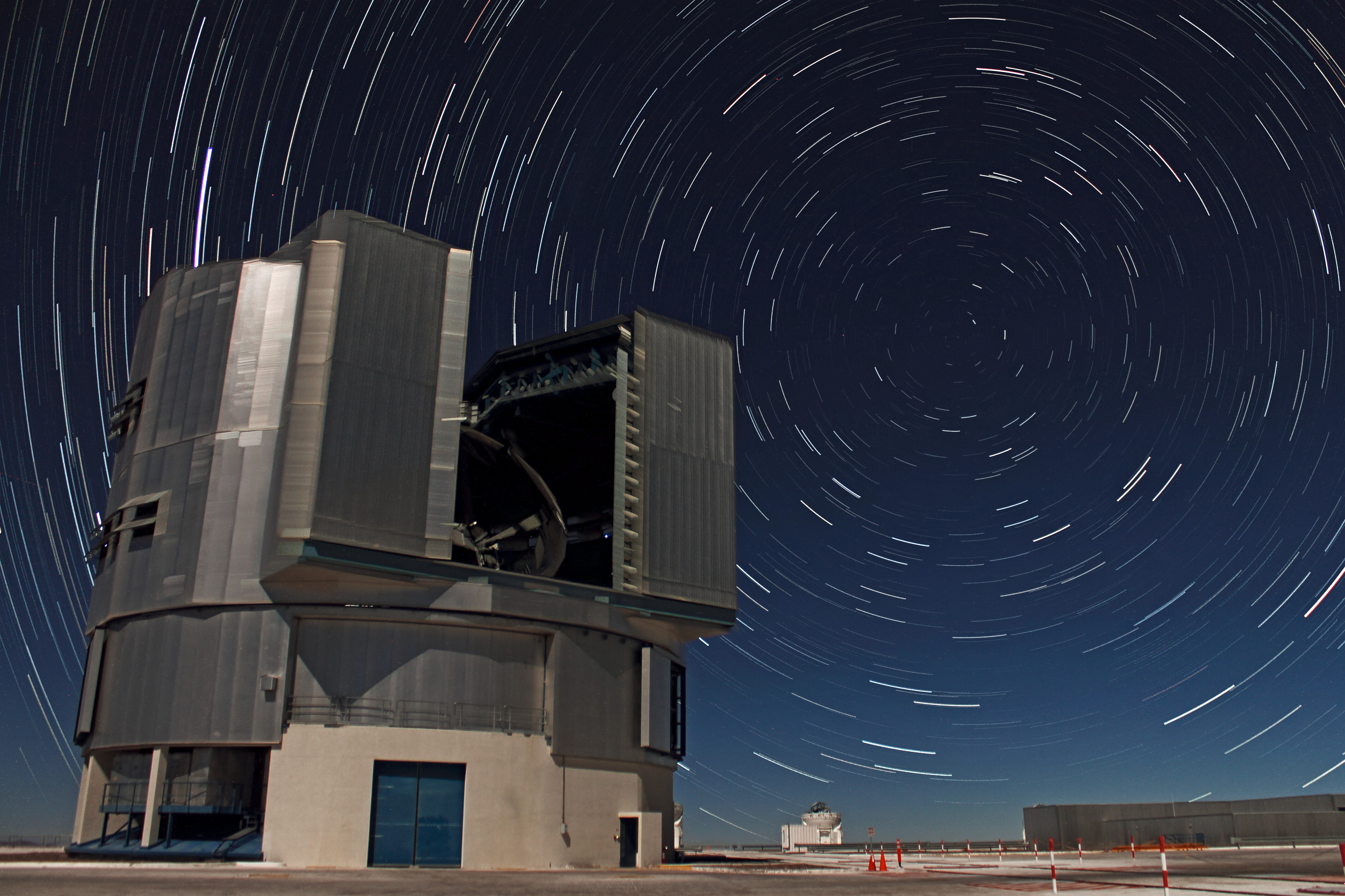 This view shows one of the Unit Telescopes of ESO’s Very Large Telescope (VLT) sitting beneath bright star trails circling the south celestial pole, a point in the sky that lies in the southern constellation of Octans (The Octant). These trails are arcs of light that trace out a star’s observed movement across the sky as the Earth slowly rotates. To capture these star trails on camera, many exposures were taken over time and combined to give the final appearance of circular tracks. Illuminated by moonlight, the telescope in the foreground is just one of the four Unit Telescopes (UTs) that make up the VLT at Paranal, Chile. Following the inauguration of the Paranal site in 1999, each UT was named in the language of the native Mapuche tribe. The names of the UTs — Antu, Kueyen, Melipal, and Yepun — represent four prominent and beautiful features of the sky: the Sun, the Moon, the constellation of the Southern Cross, and Venus, respectively. The UT in this photograph is Yepun, also known as UT4. This image was taken by ESO Photo Ambassador Farid Char. Char works at ESO’s La Silla–Paranal Observatory, and is a member of the site-testing team for the European Extremely Large Telescope (E-ELT), a new ground-based telescope that will be the largest optical/near-infrared telescope in the world when it is completed in the early 2020s.